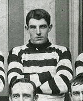 Photograph of Les Abbott in 1904